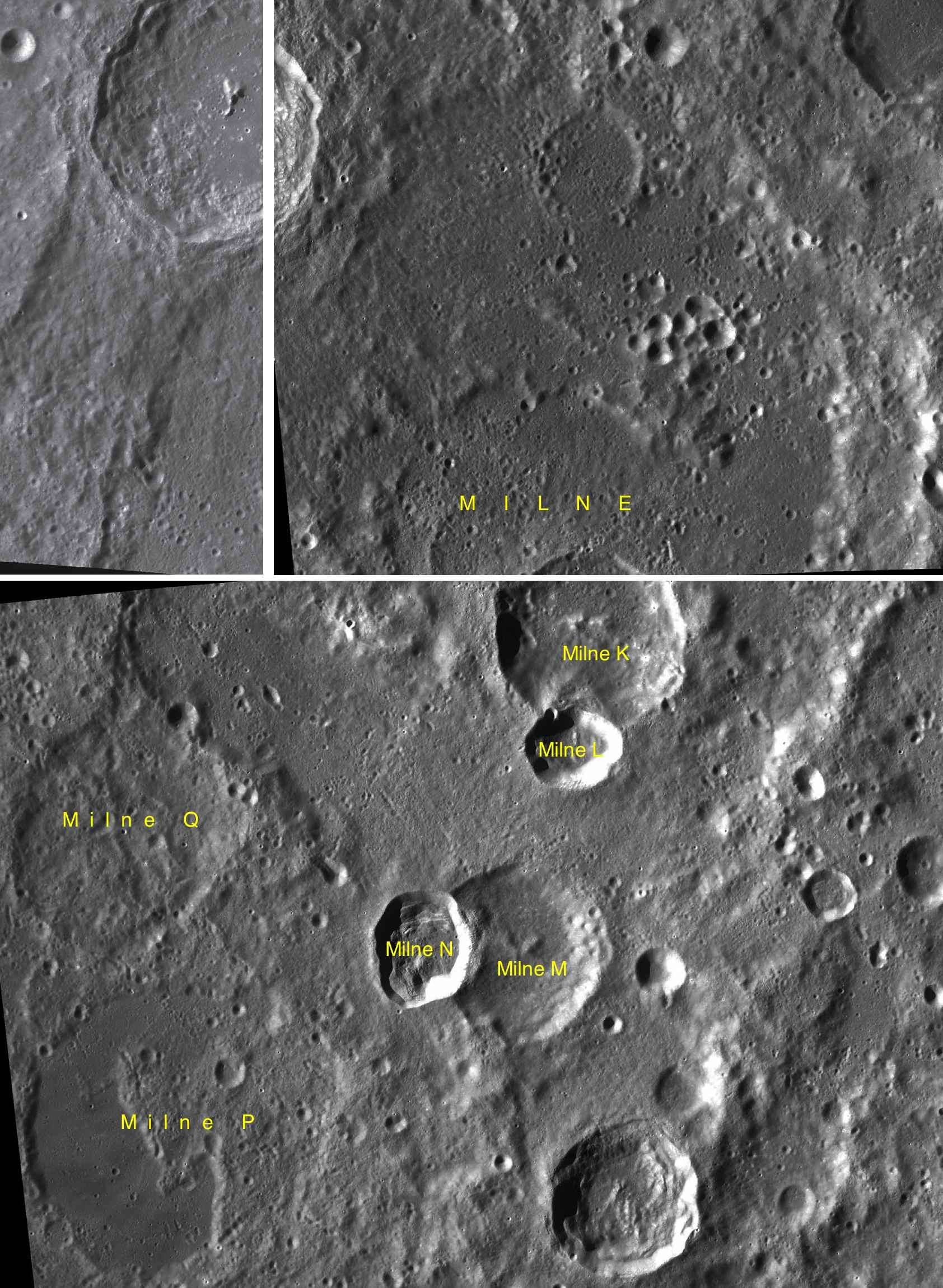 Parts of the charts LAC-100, LAC-101, LAC-117 used for the presentation